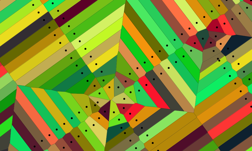 Thiessen polygons (also called a Voronoi diagram or Dirichlet tessellation)